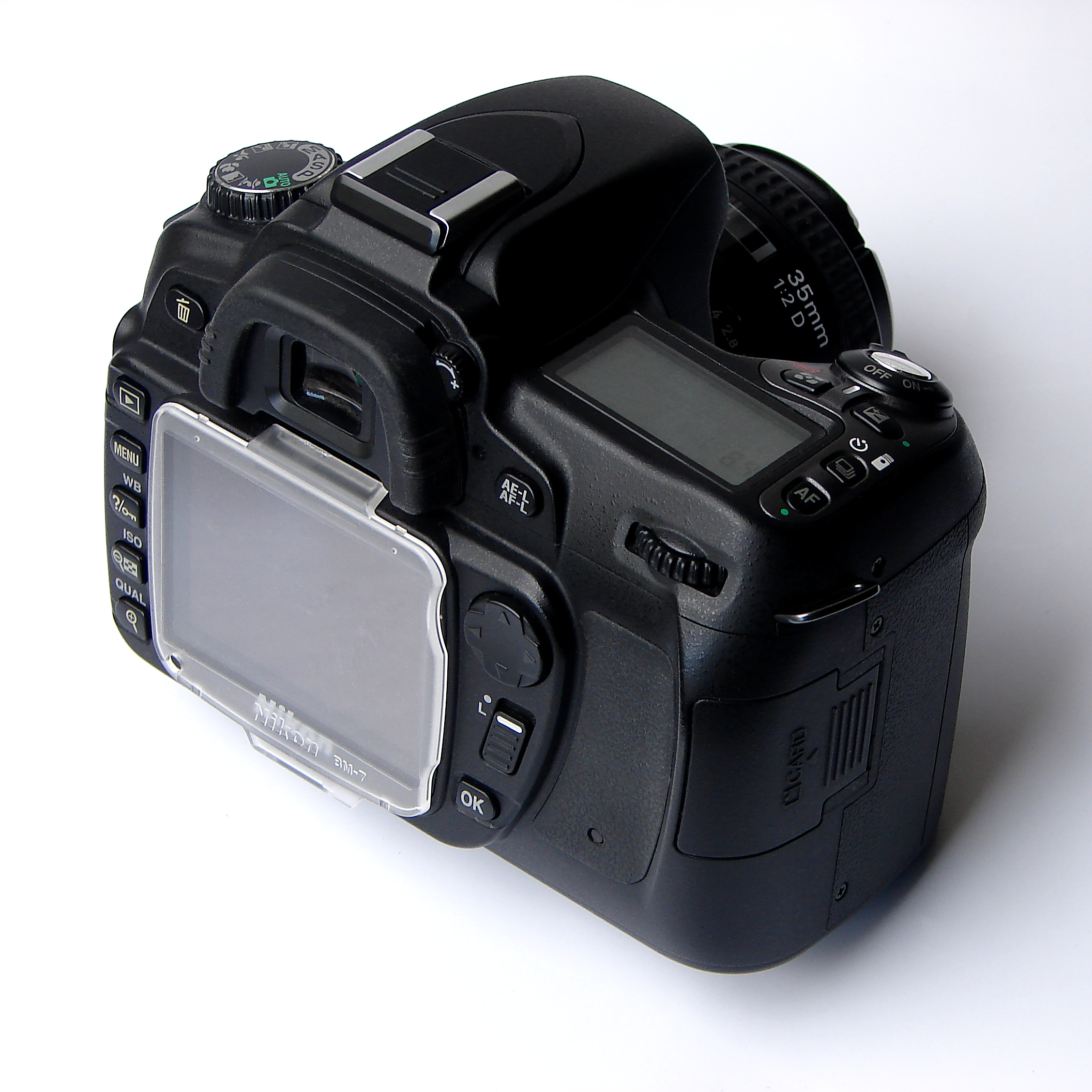 This image shows the rear of a Nikon D80 camera with a Nikkor 35 mm f/2.0D AF lens.